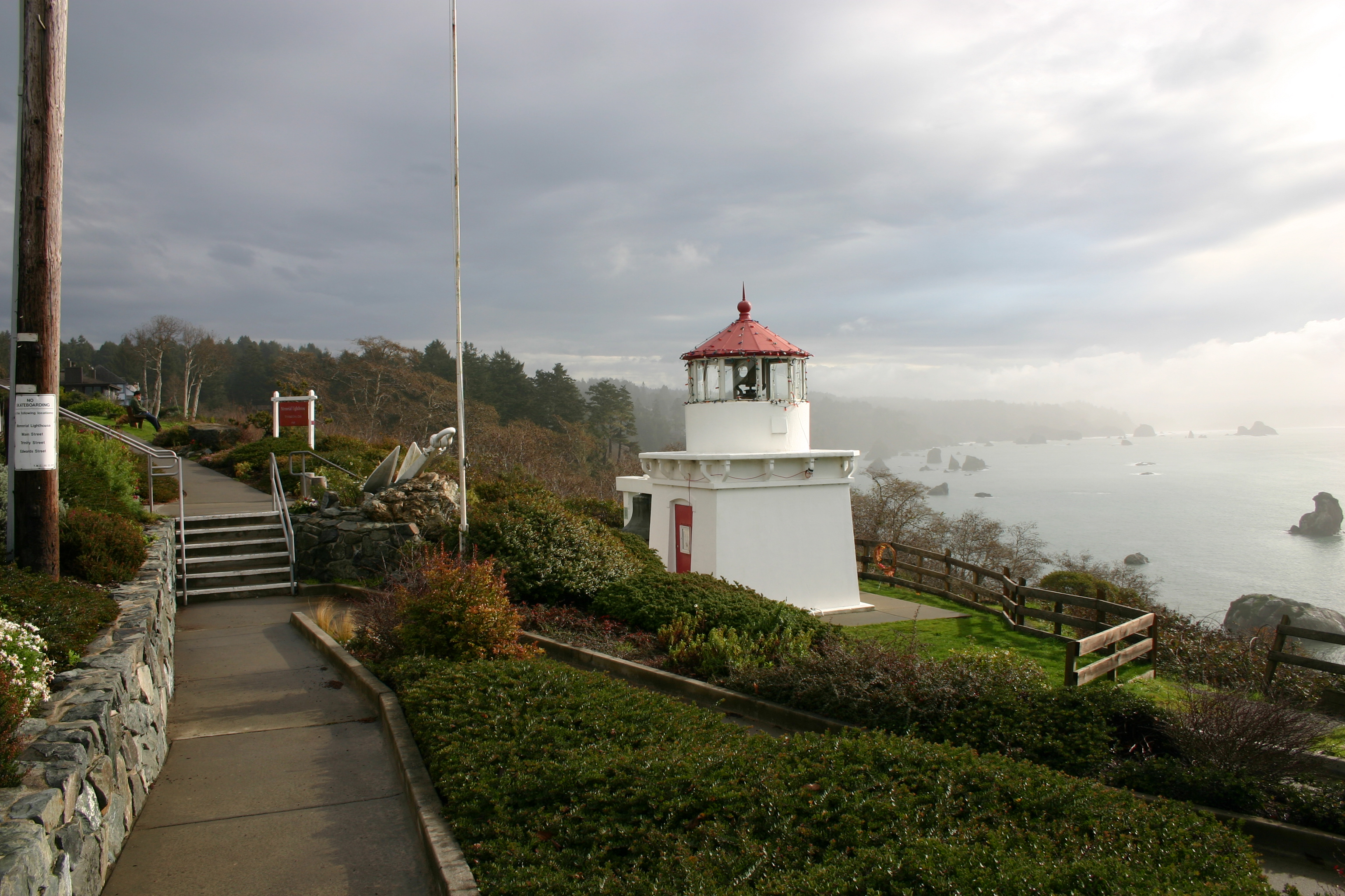 Picture of the replica of Trinidad Head Lighthouse.